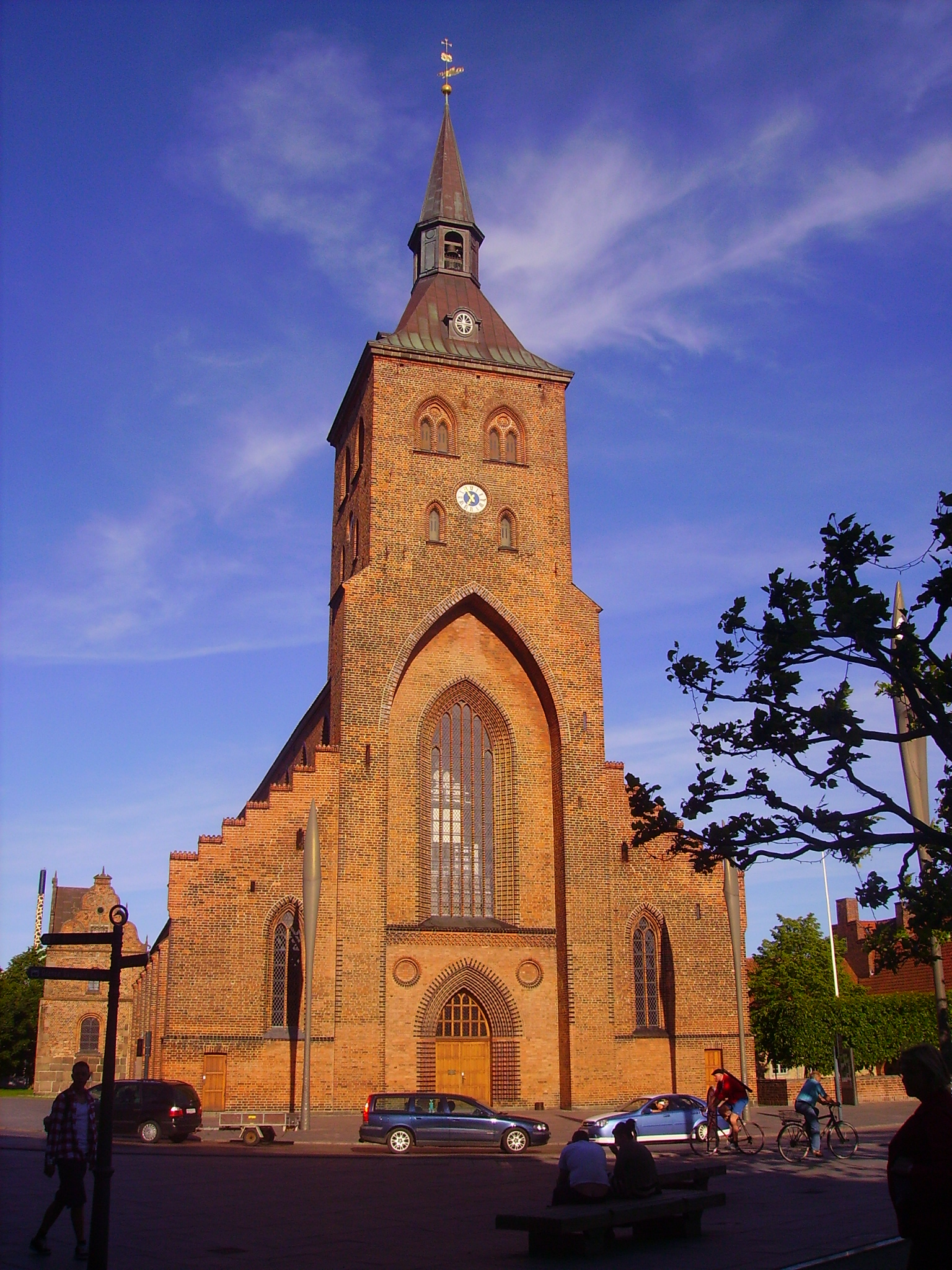 Facade of the Cathedral St. Canute, Odense